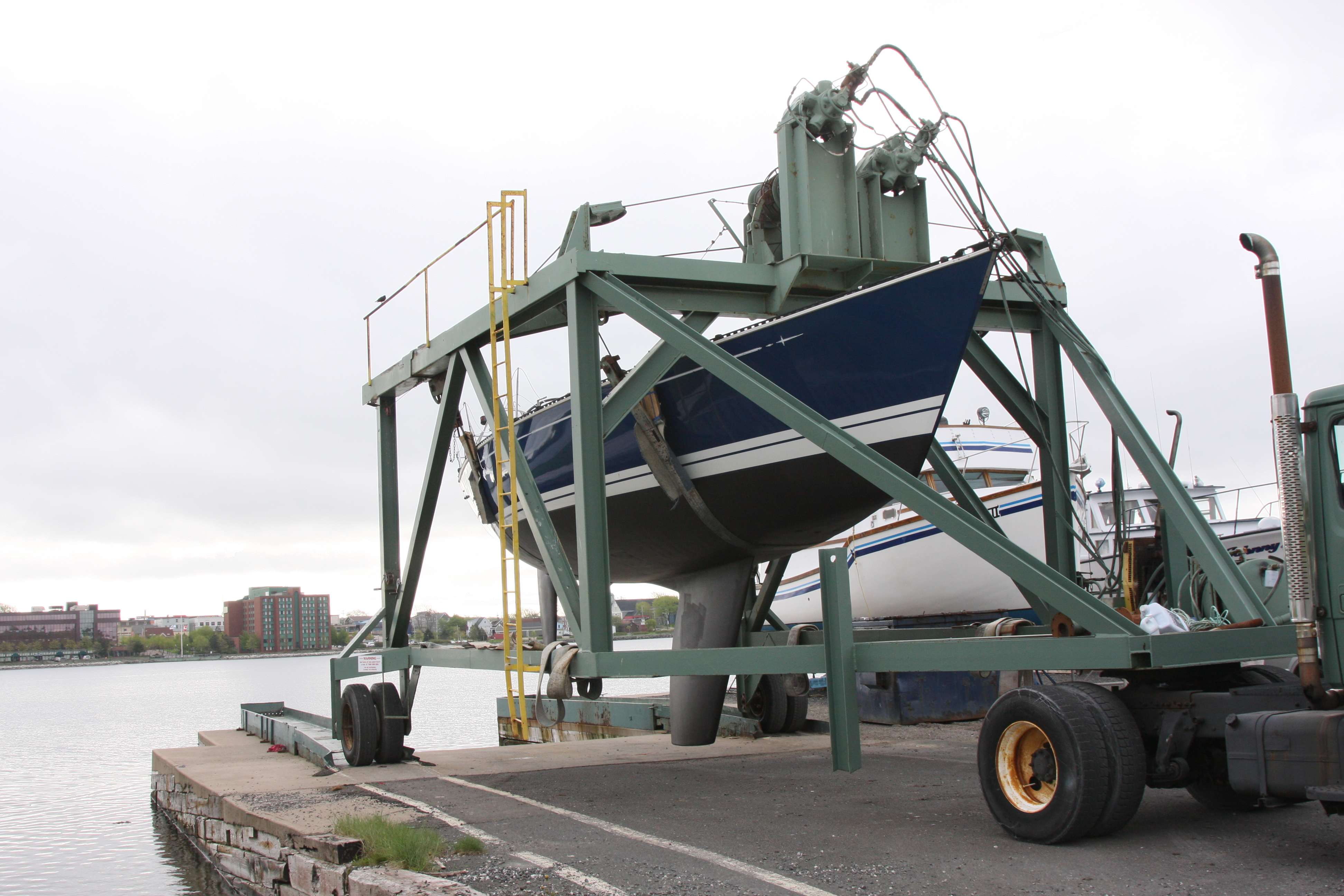 The 18-tonne (20-ton) travel lift of the Dobson yacht Club in Westmount, Nova Scotia. It can lift boats with length to 50 feet (15 m), beam to 15 feet (4.6 m), draft to 8 feet (2.4 m).